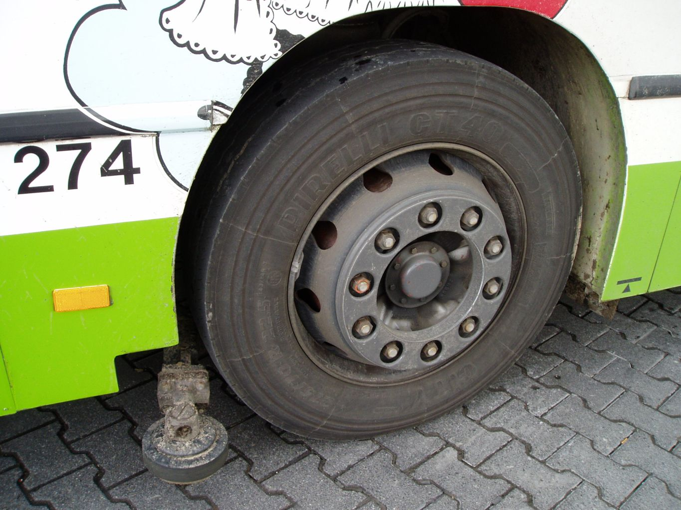 Mercedes Benz O 405 N guided bus of MVV Verkehr AG in Mannheim, germany. Detail of the guide wheel for use on the special trackway.